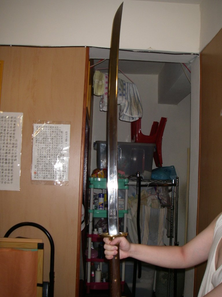 a Chinese weapon.A two hands using sword.It's in Ming dynasty affected by Japanese katana.